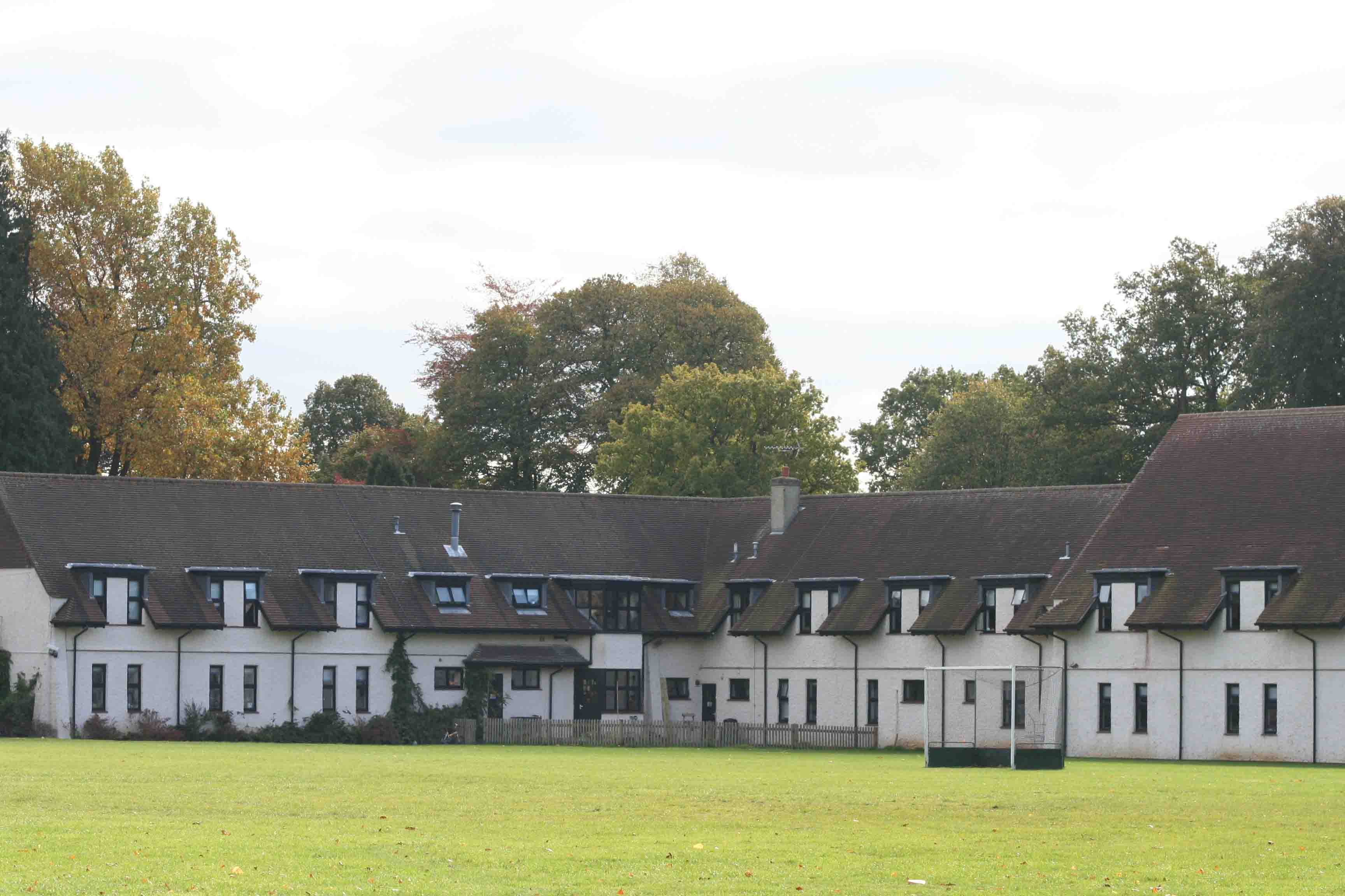 Priorsfield Photo for Web